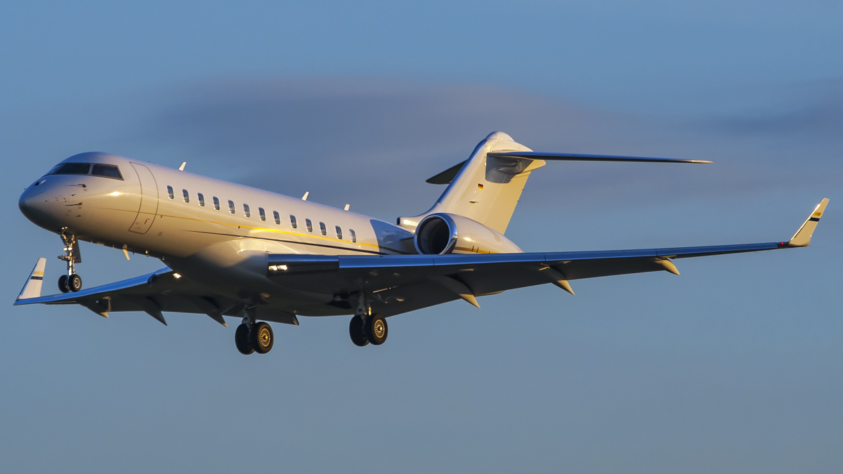 D-ARKO Bombardier Global Express XRS K5 Aviation VKO | UUWW